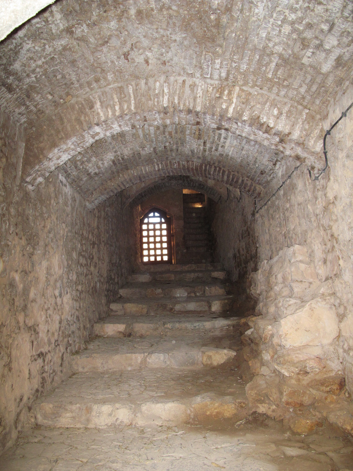 This file was uploaded for Wiki Loves Monuments in Portugal with the unique identifier 70566.